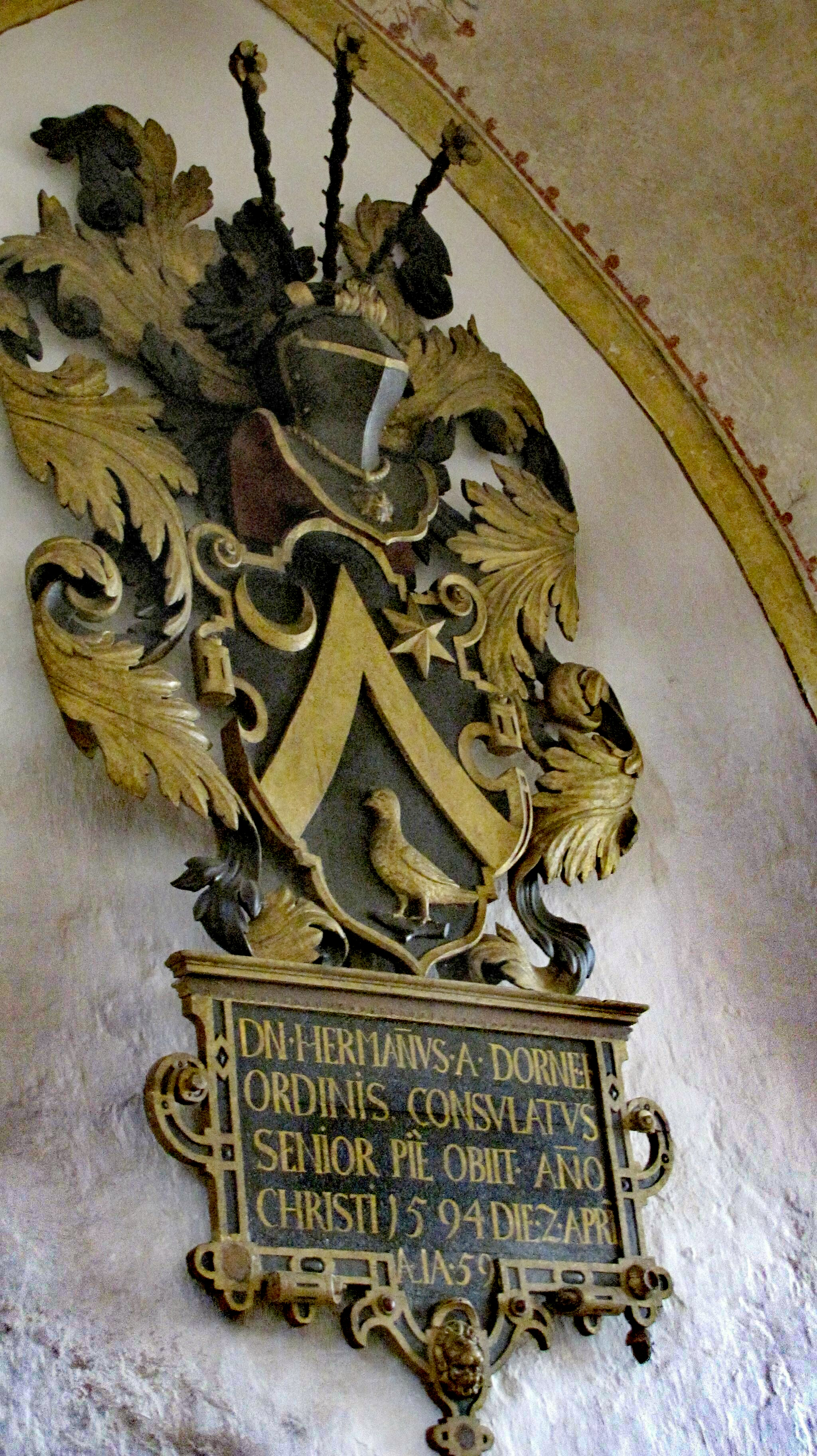 Epitaph for Hermann von Dorne in the Marienkirche, Lübeck